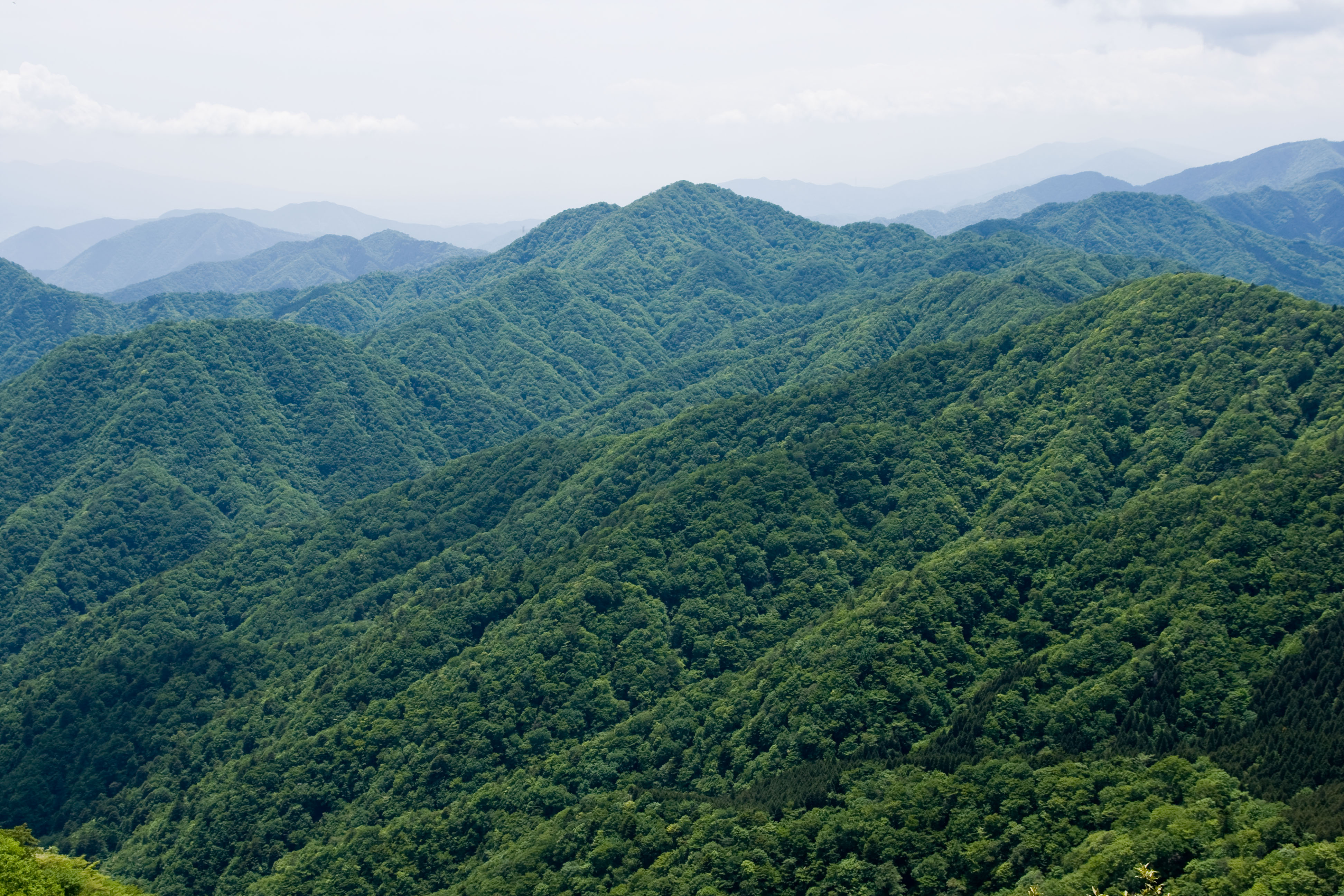 Mount Azegamaru seen from the northeast. Taken from near Habuguchi col.